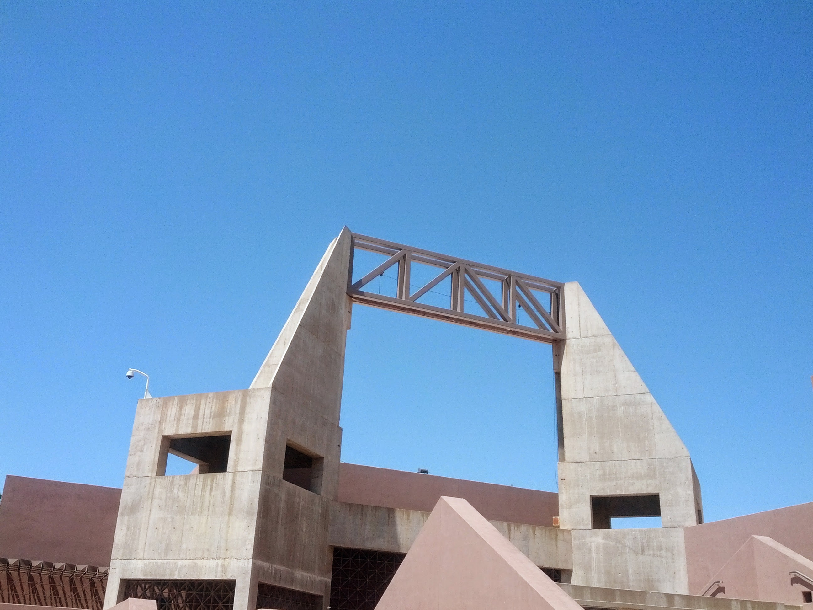 Architectural detail of the Nelson Fine Arts Center at Arizona State University at the Tempe campus, designed by Antoine Predock in 1989.